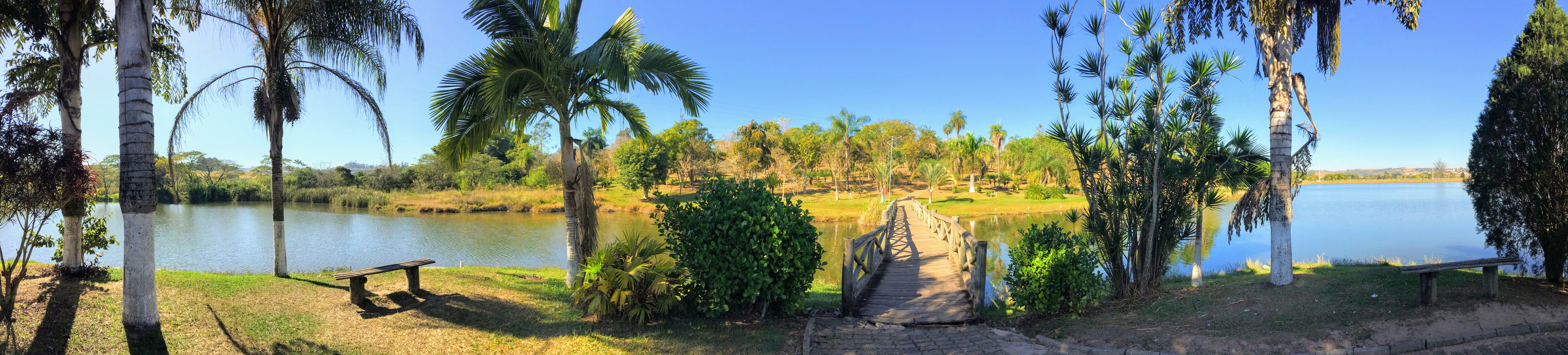 Ciro Simão Park (Duartina-Brazil)